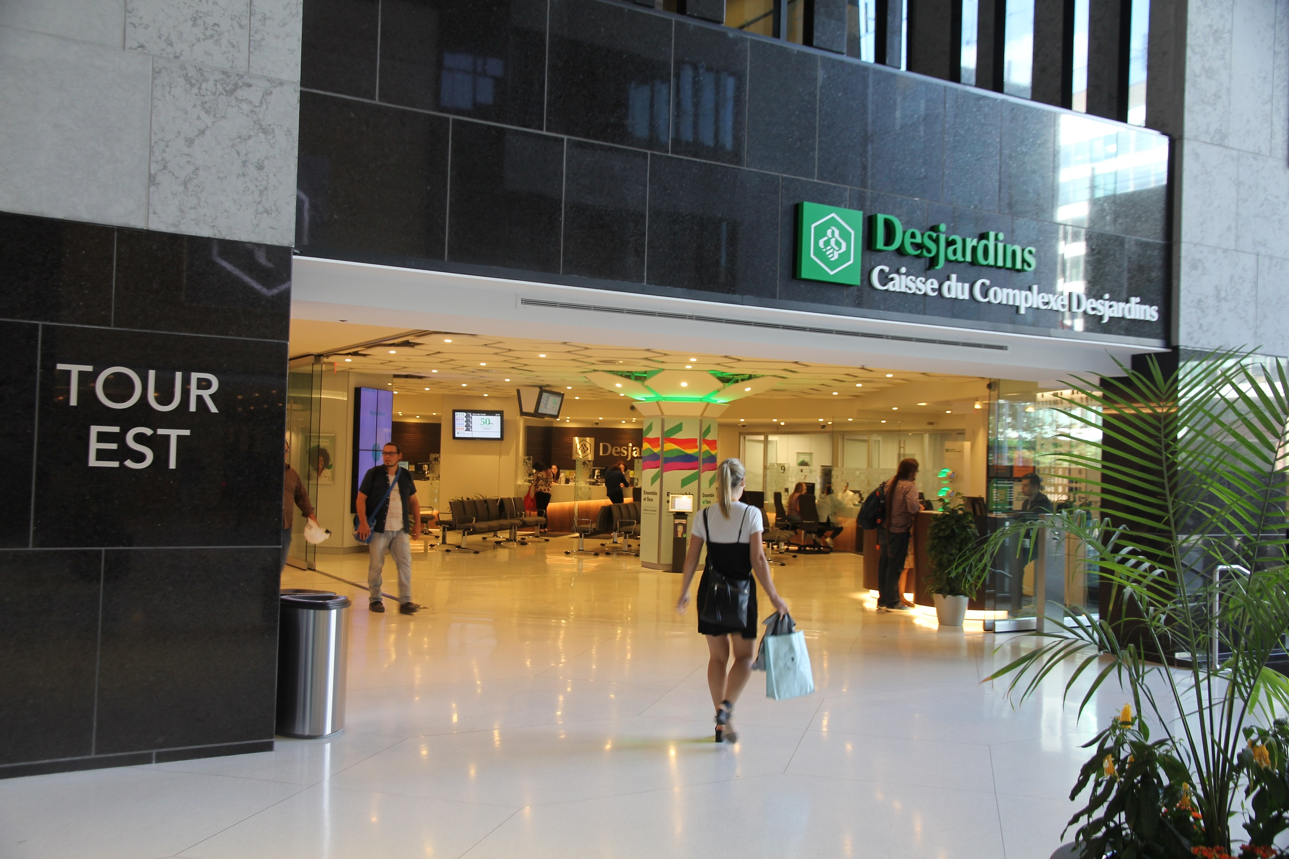 Caisse du Complexe Desjardins, i.e. the bank of Desjardins Group located in Complexe Desjardins, Montreal, Canada.